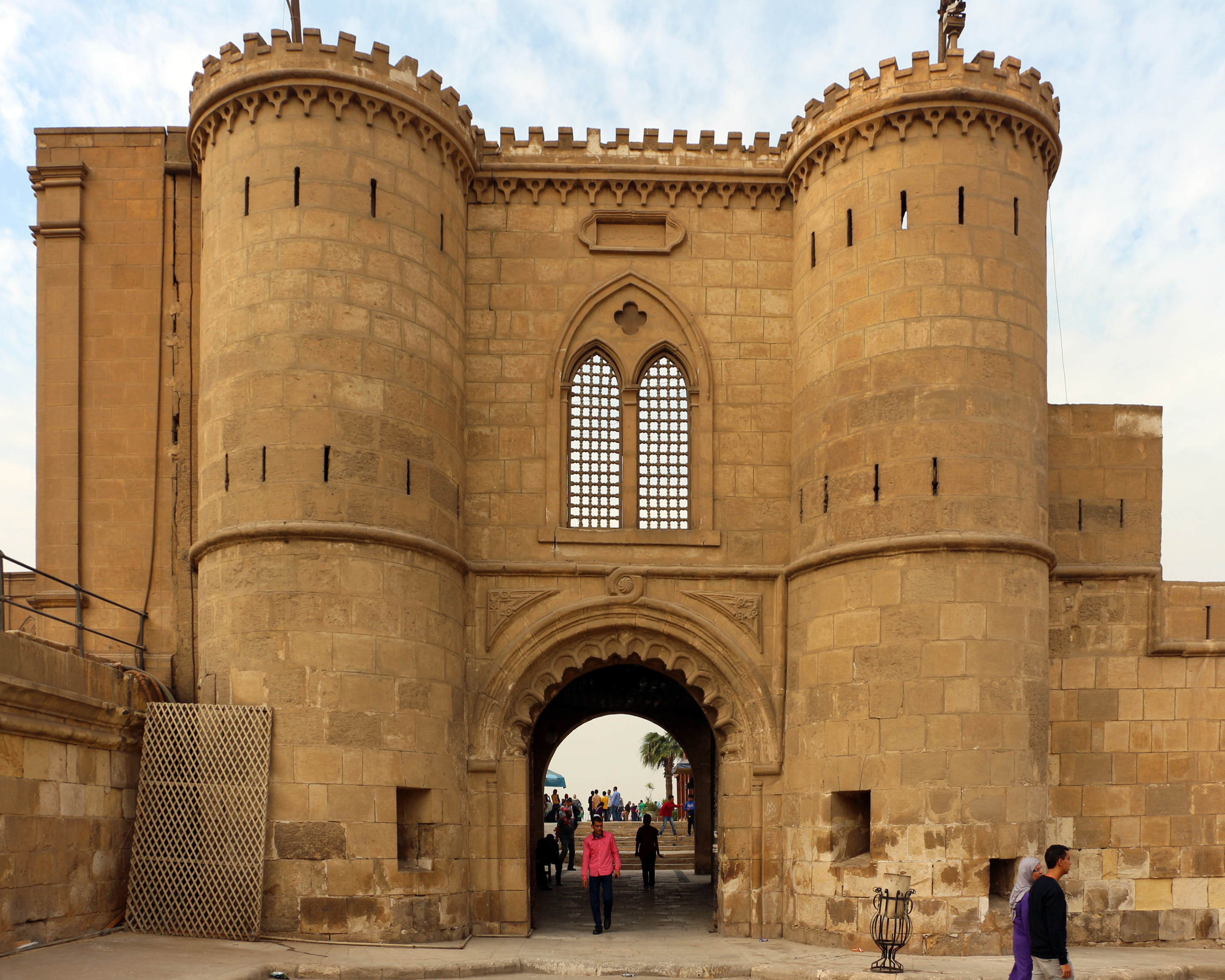 Cairo Citadel